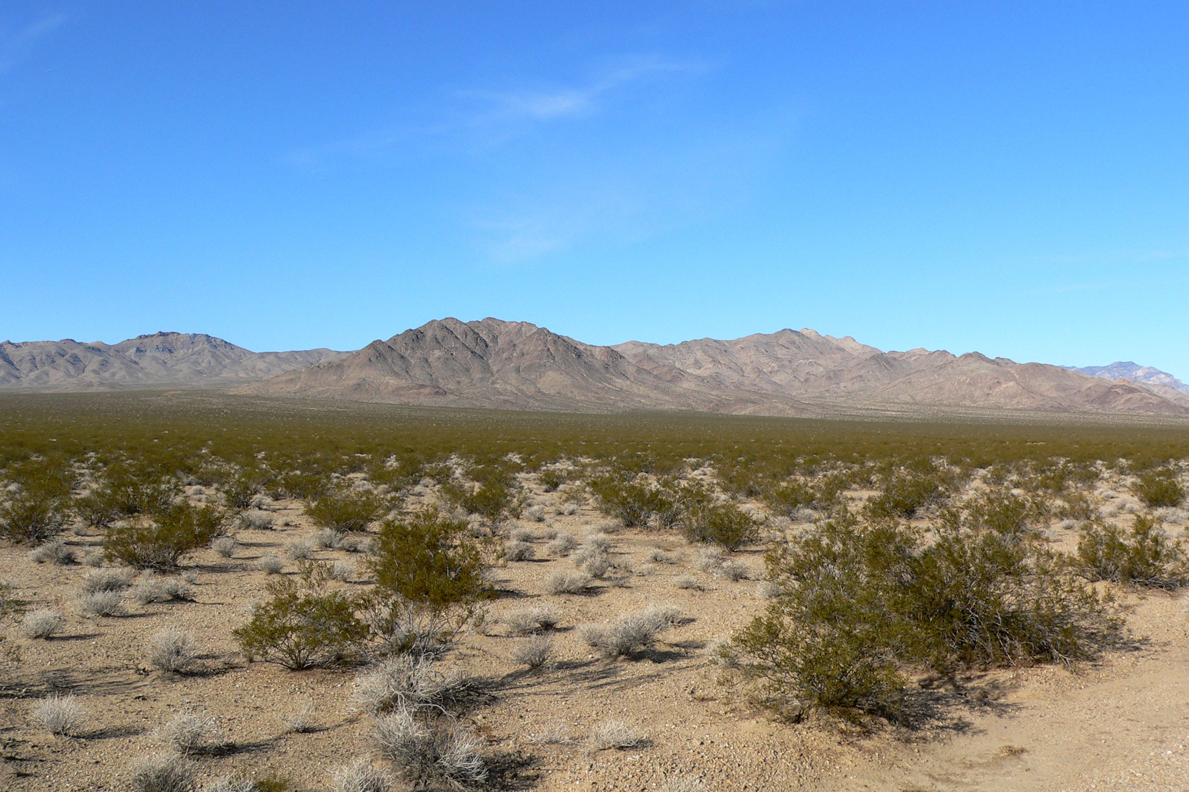 Ivanpah Mountains from the east, Mojave National Preserve, southern California